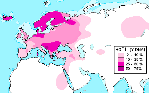 Haplogroup I (Y-DNA) distribution